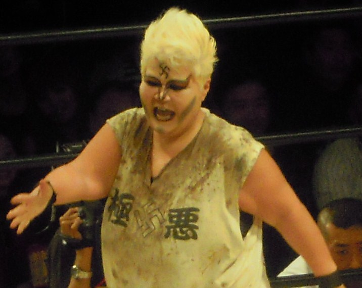 Japanese professional wrestler Dump Matsumoto. Jan 8 2012 Bull Nakano Final Event. TOKYO DOME CITY HALL.